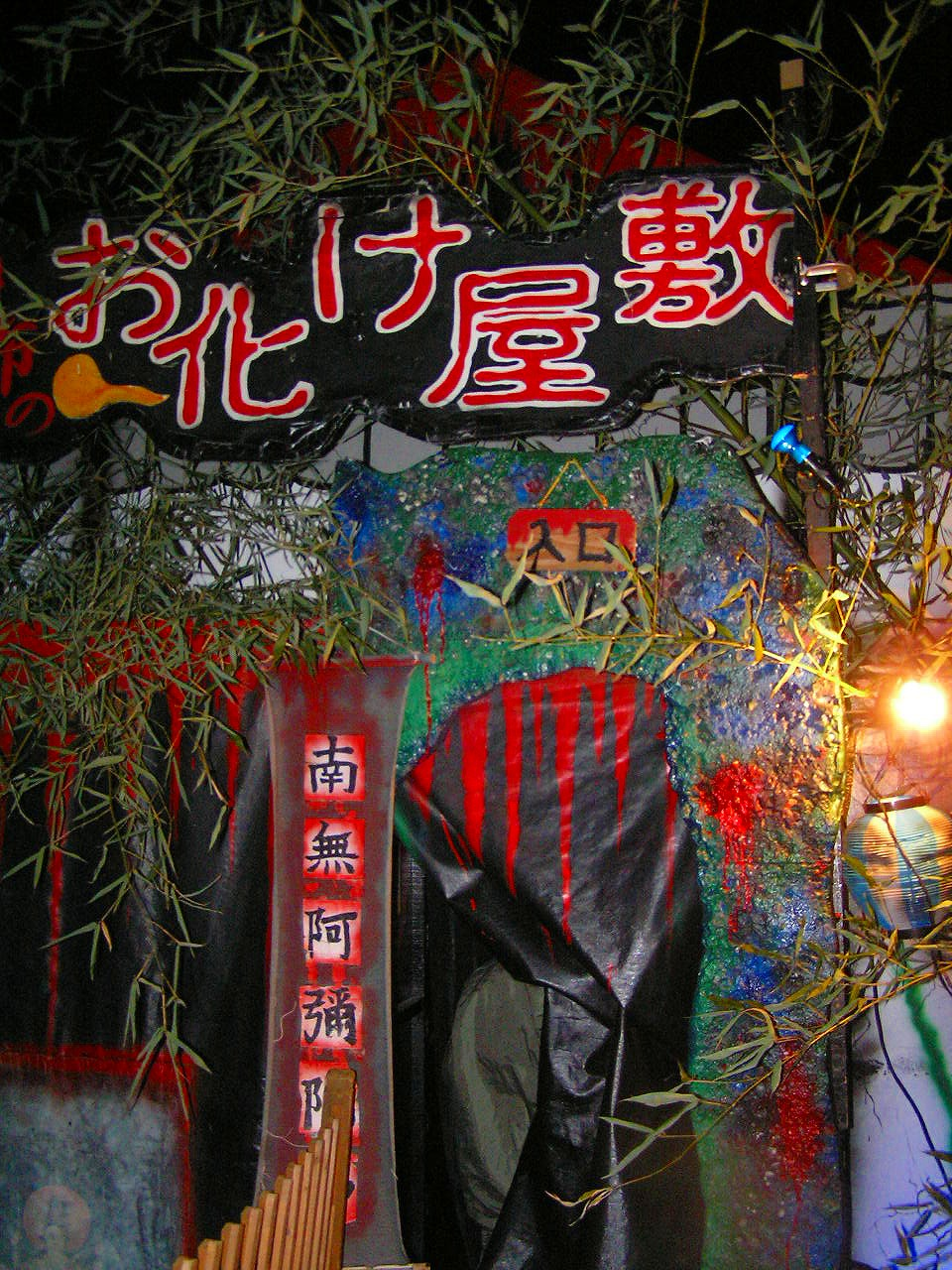 Haunted blacksmith's house in Hyogo, Japan, during the autumn festival.